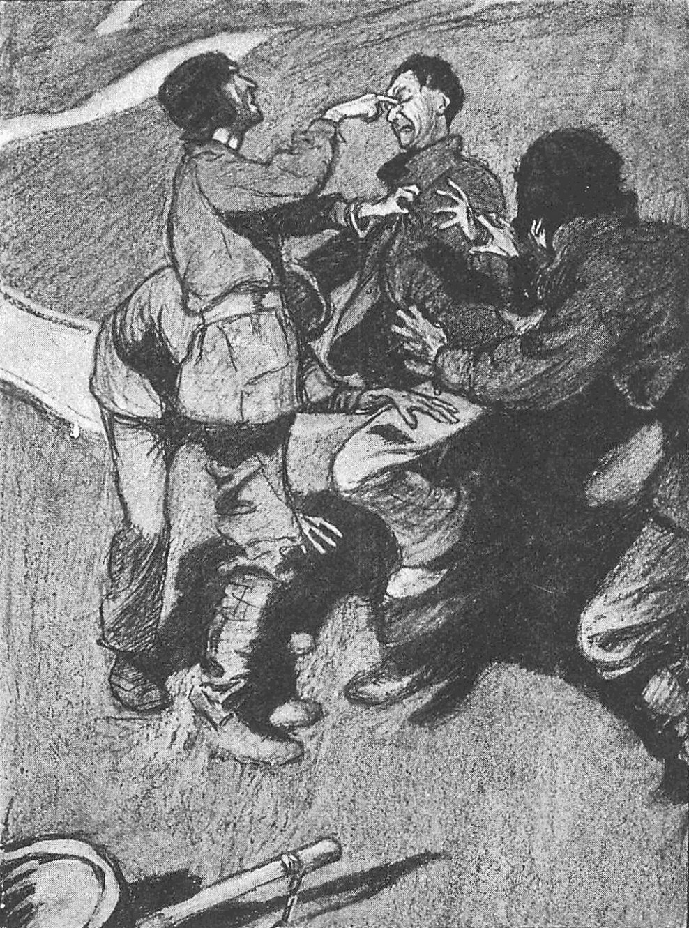 Illustrations by Claude Allin Shepperson from H.G. Wells' short story "The Country of the Blind", published in The Strand Magazine in April 1904. Orginal caption / oryginalny opis